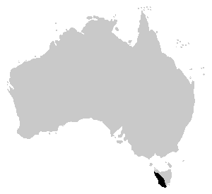 Distribution of the Tasmanian Tree Frog (Litoria burrowsae) in Tasmania, Australia.